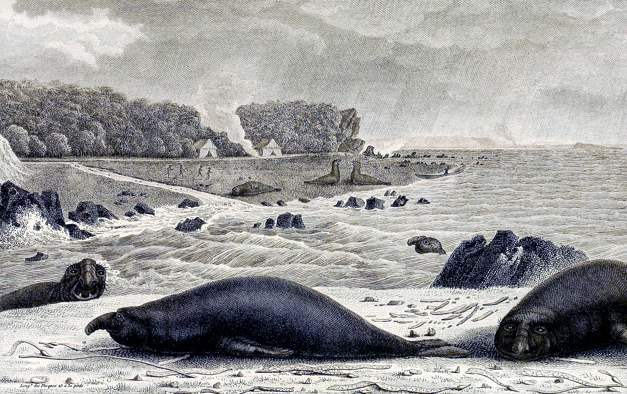 Illustration of elephant seals and sealers on a bay on King Island, Tasmania.